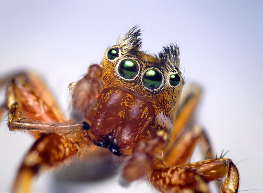 Face of an adult male Tutelina elegans jumping spider.